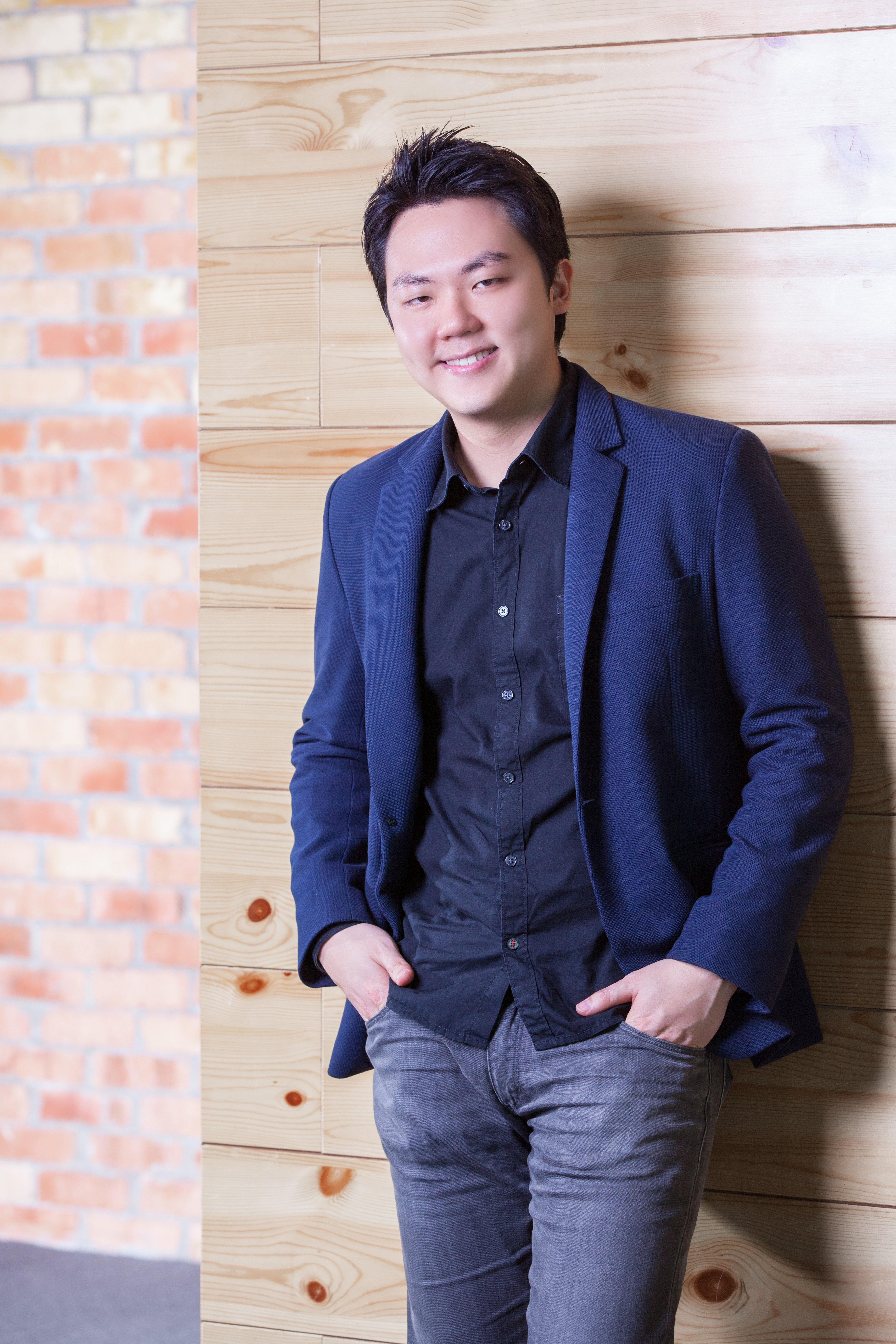 Joel profile picture at Groupon MY HQ